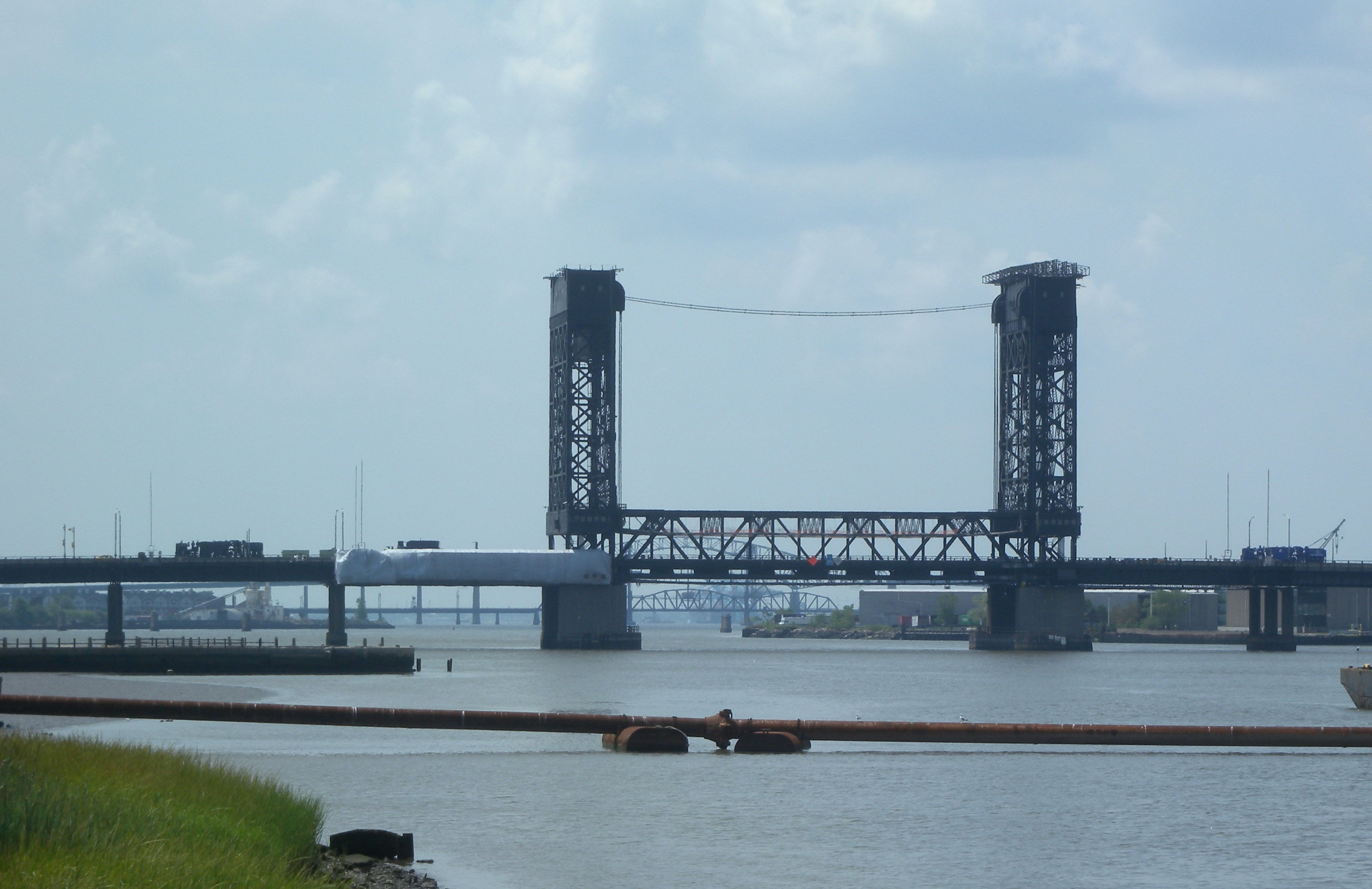 Looking south from Duncan Avenue along the Hackensack River at the distant Lincoln Highway Lift Bridge on a sunny midday.